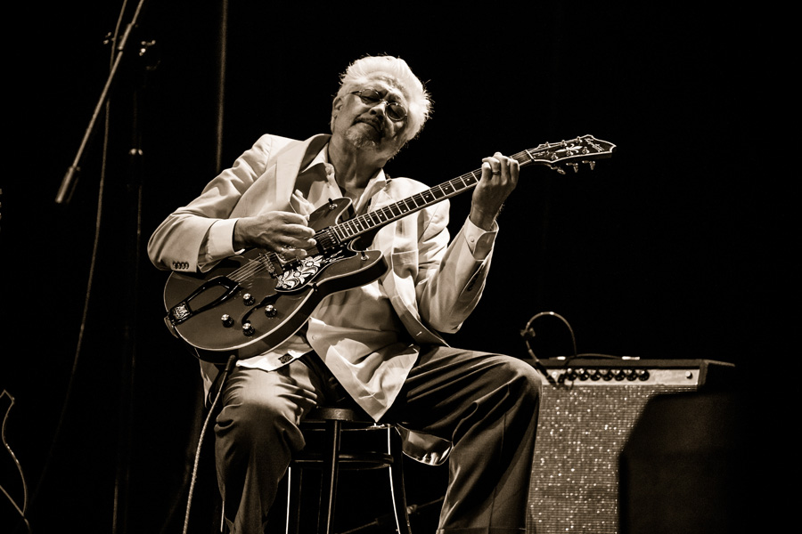 Larry Coryell, Wrocławski Festiwal Gitarowy 2013, fot. Jarek Pępkowski